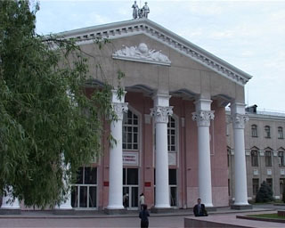 The main Building of Kyrgyz National University